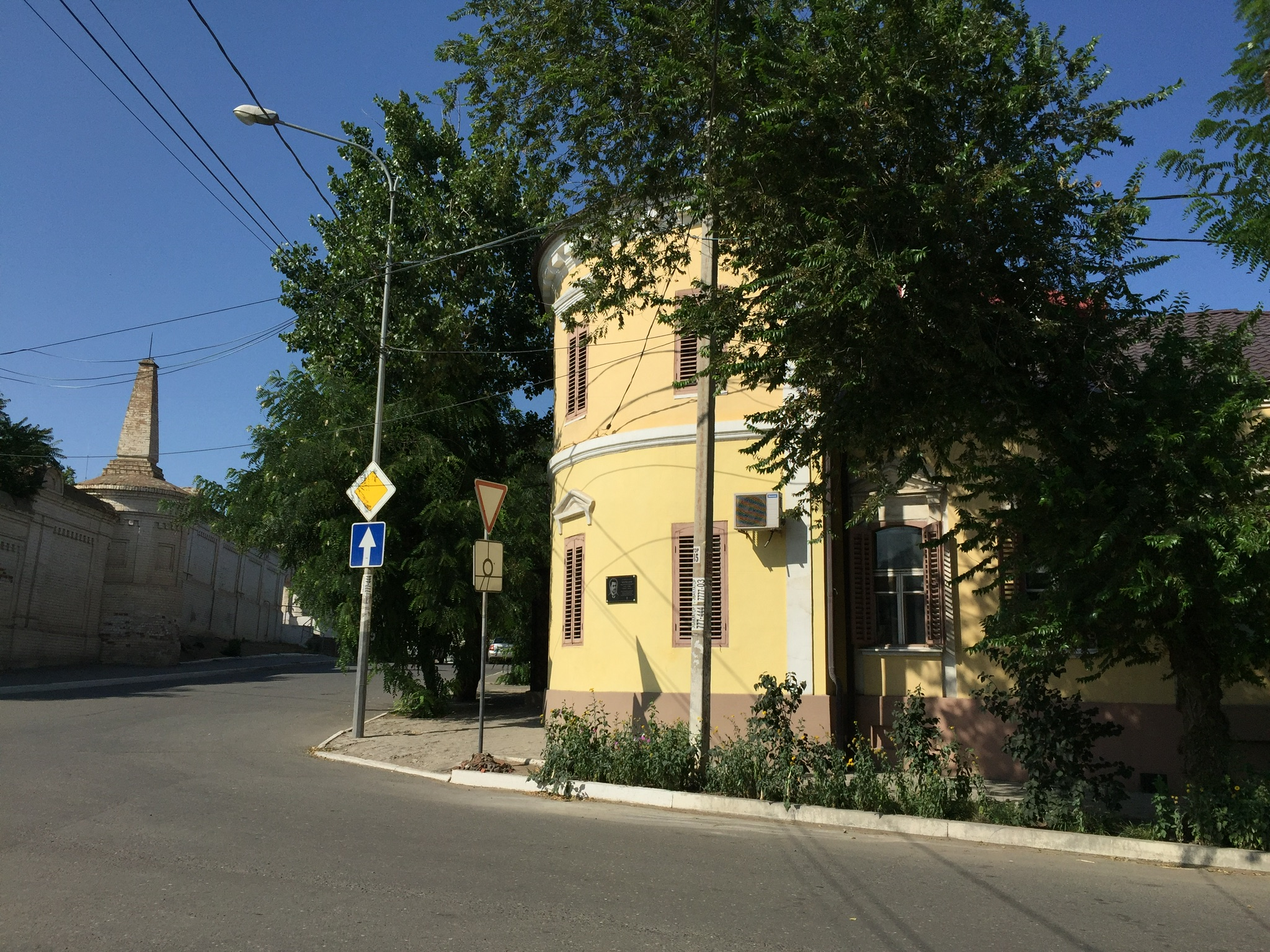 Chalabyana Street in Astrakhan